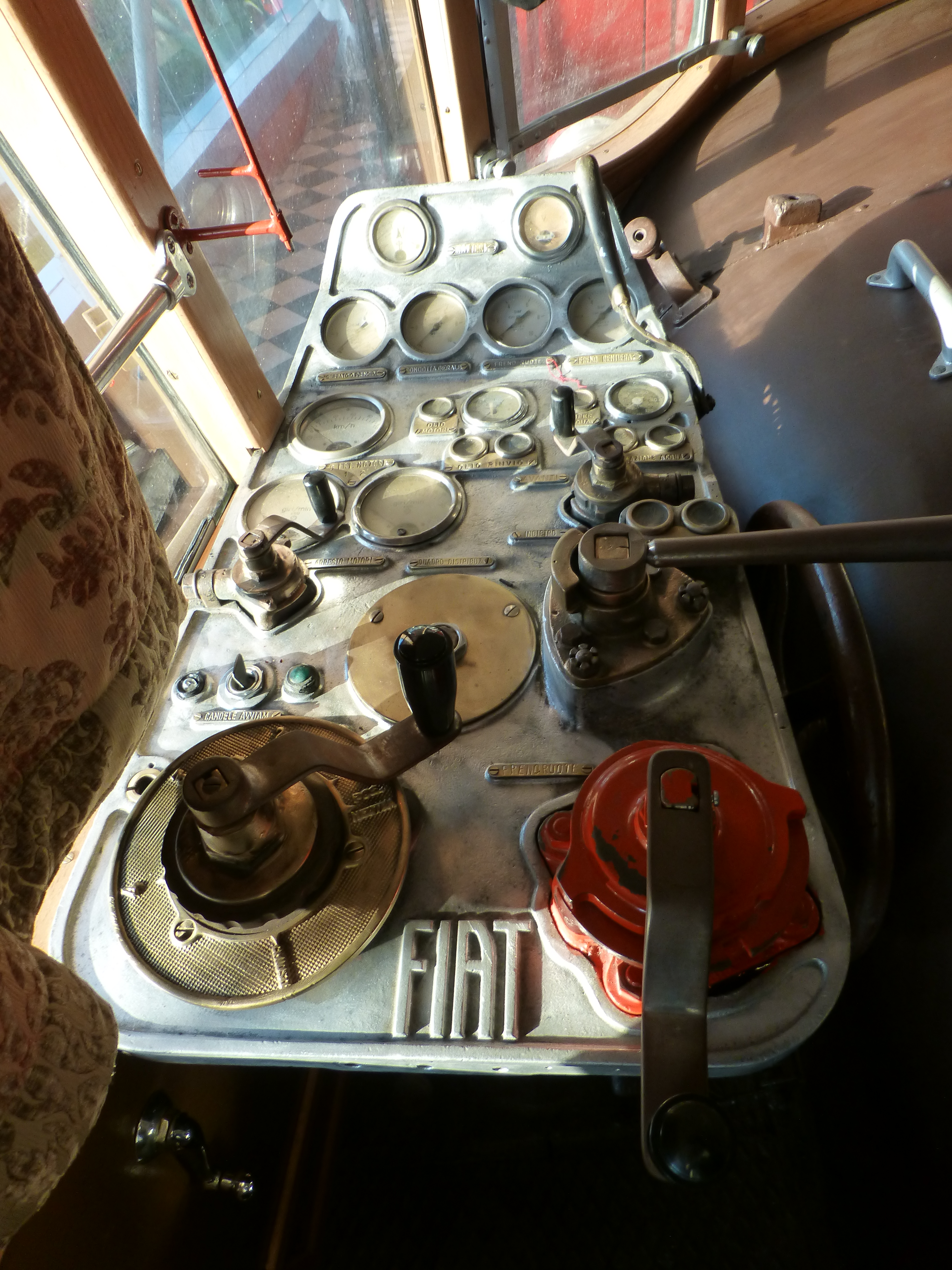 Rahmi M. Koç Museum